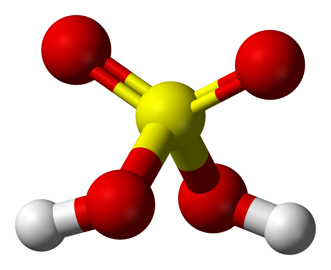 Ball-and-stick model of the sulfuric acid molecule H2SO4. Structural data from A. Givan, L. A. Larsen, A. Loewenschuss and C. J. Nielsen (October 1999). "Matrix isolation mid- and far-infrared spectra of sulfuric acid and deuterated sulfuric acid vapors". Journal of Molecular Structure 509 (1-3): 35-47.